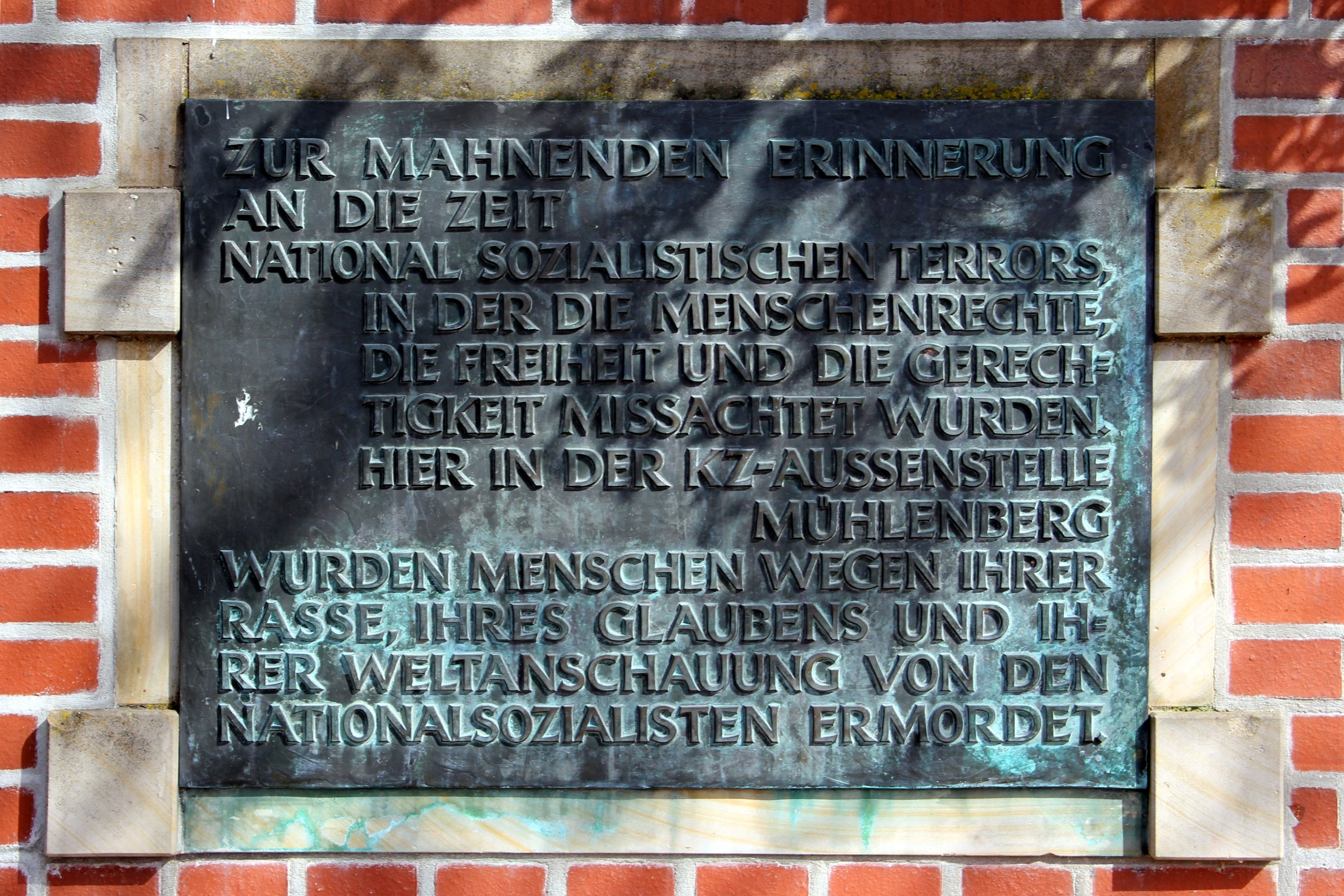 Hannover-Mühlenberg concentration camp memorial, subcamp of the Neuengamme concentration camp